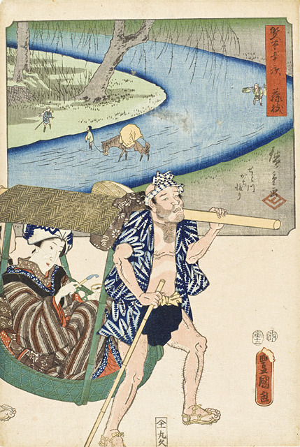 Japan, 1854, 12th month Series: Double-brush 53 stages, no. 23 Prints; woodcuts Color woodblock print Image: 13 3/8 x 9 1/4 in. (33.97 x 23.5 cm); Sheet: 14 x 9 3/8 in. (35.56 x 23.81 cm) Gift of Chuck Bowdlear, Ph.D., and John Borozan, M.A. (M.2003.67.4) Japanese Art